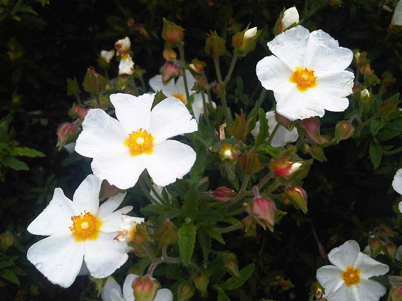 Cistus x canescens 'Albus' in Kew Gardens, England.